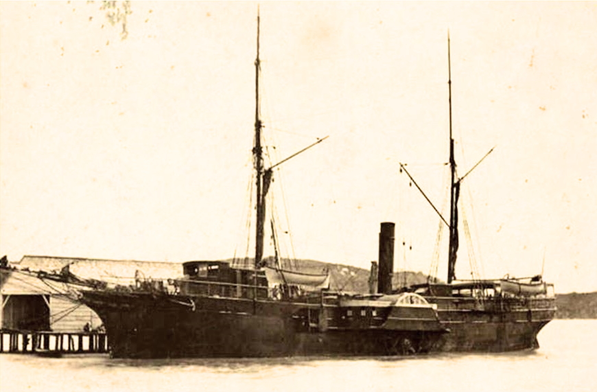 El Vapor, ship for what the Plaza del Vapor was named in Havana, Cuba.